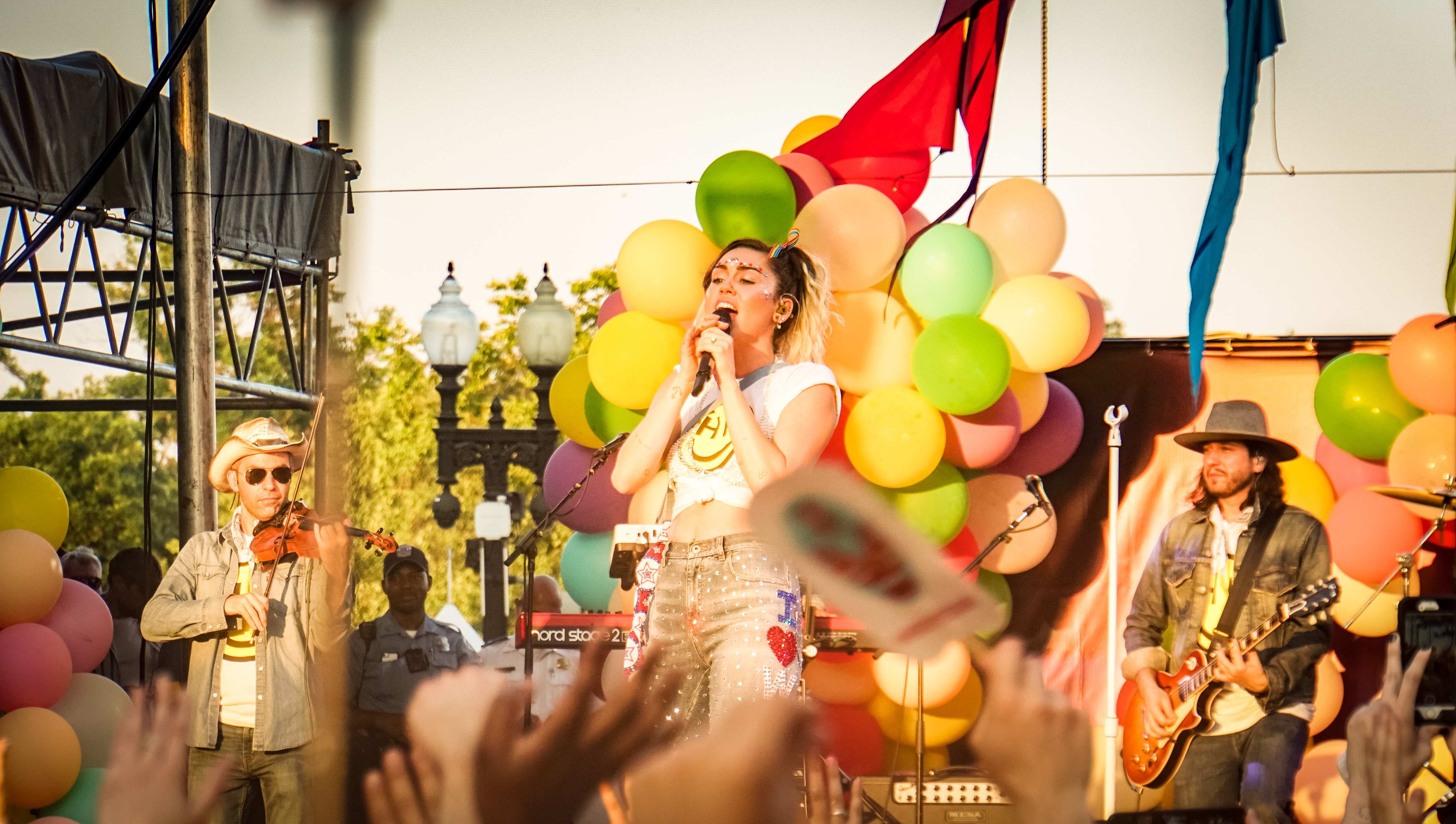 Capital Pride Festival 2017, featuring the Pointer Sisters and Miley Cyrus. Kaiser Permanente is a Platinum Sponsor of Capital Pride and Capital TransPride As Washington, DC goes, so goes the nation, in the most inclusive city in the world.